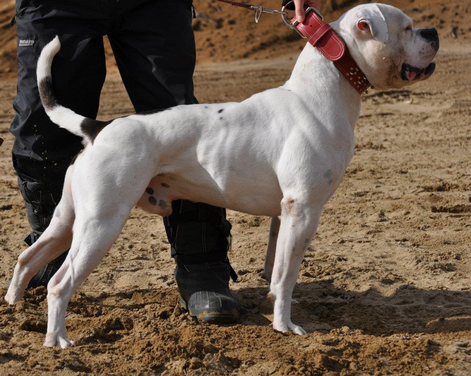 Spectacular male American Bulldog, bully-type hybrid, named "Faithfullbull Spike of Mightybull"